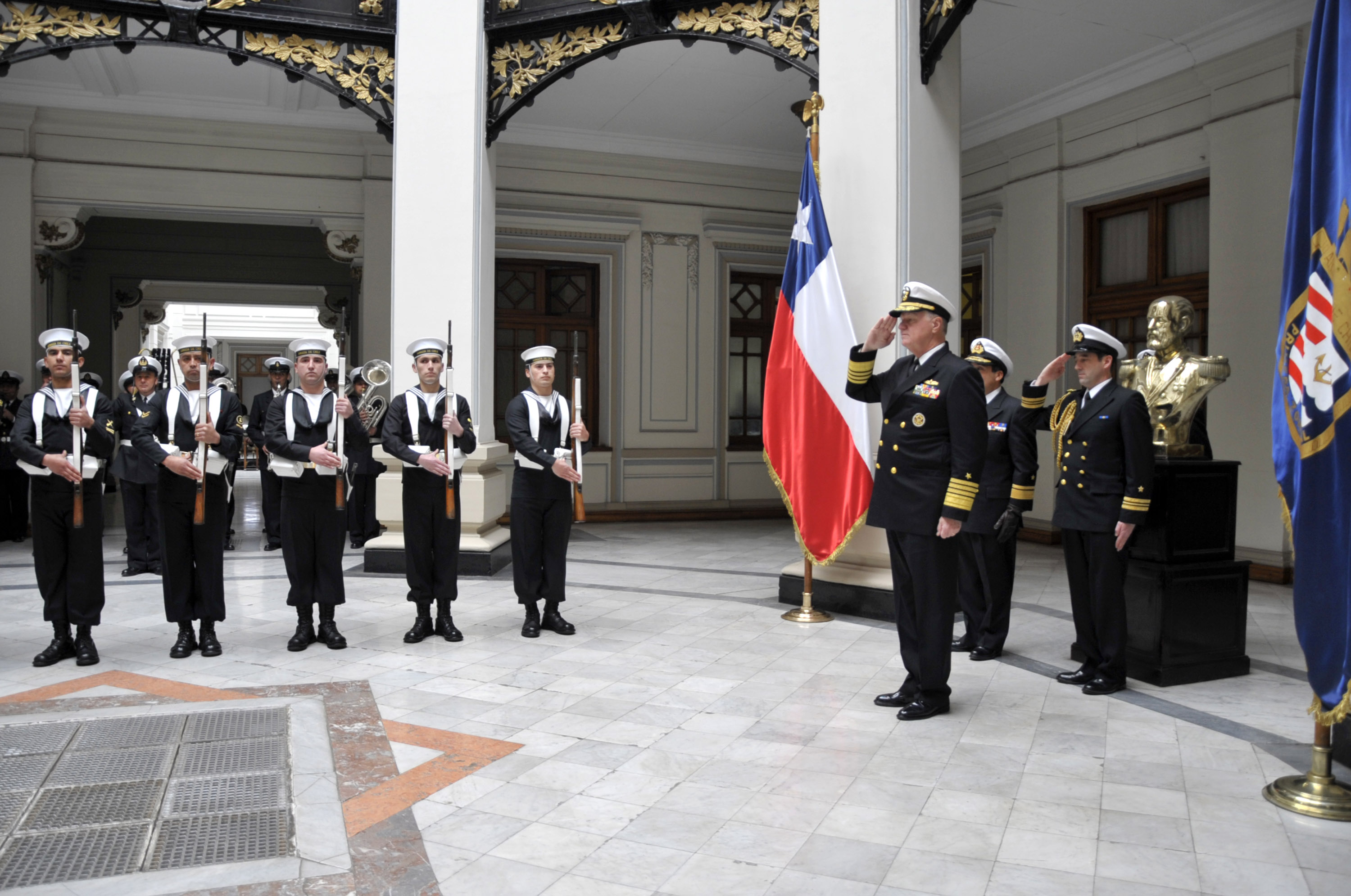 VALPARAISO, Chile (Aug. 5, 2011) Chief of Naval Operations (CNO) Adm. Gary Roughead renders honors during a welcoming ceremony to the Chilean naval headquarters during a counterpart visit in Valparaiso, Chile. (U.S. Navy photo by Chief Mass Communication Specialist Tiffini Jones Vanderwyst/Released)